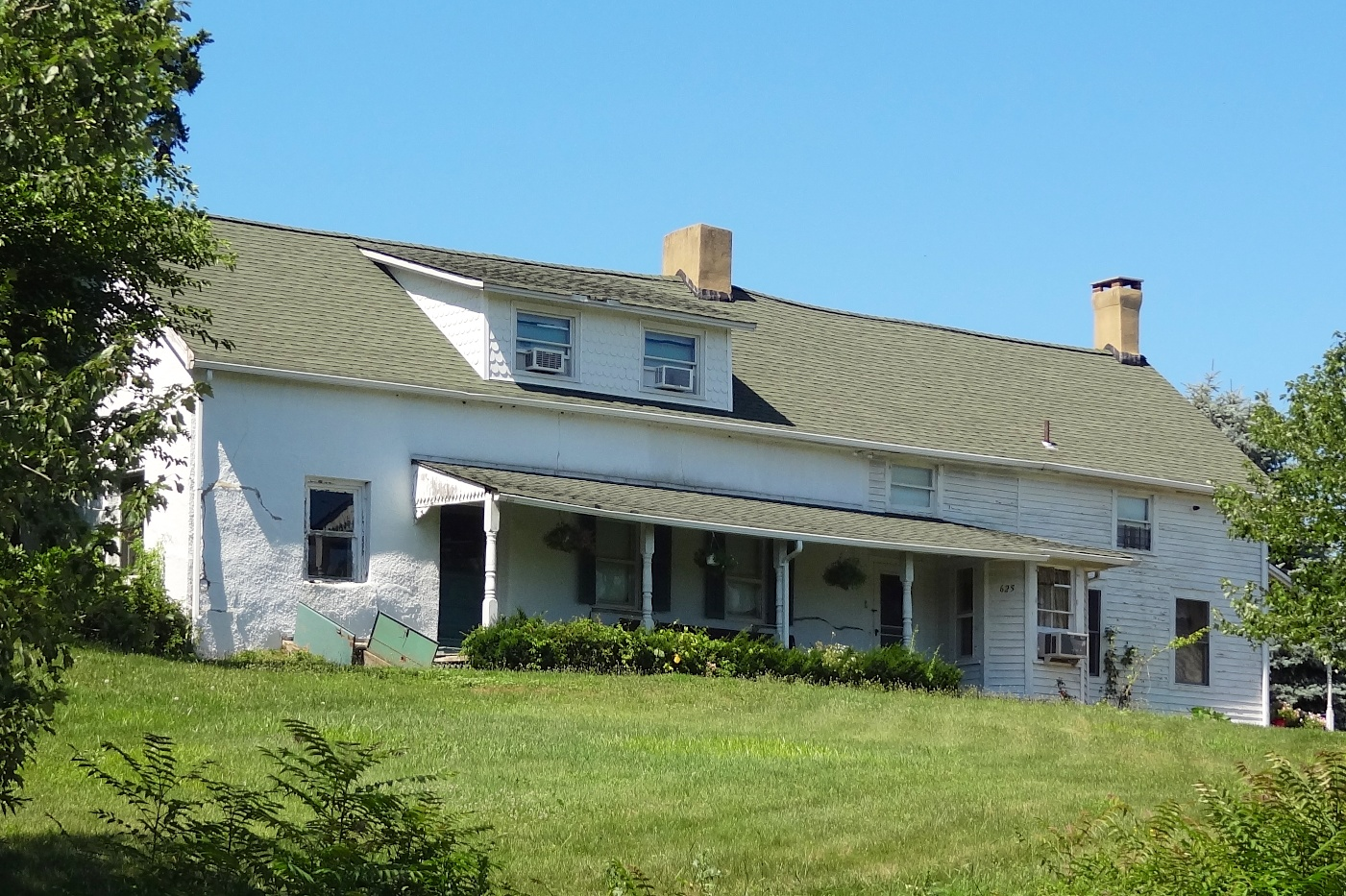 Road Up Raritan Historic District, Along River Rd., from Ellis Pkwy to 899 River Rd. Piscataway Township John Field House, built in 1743.